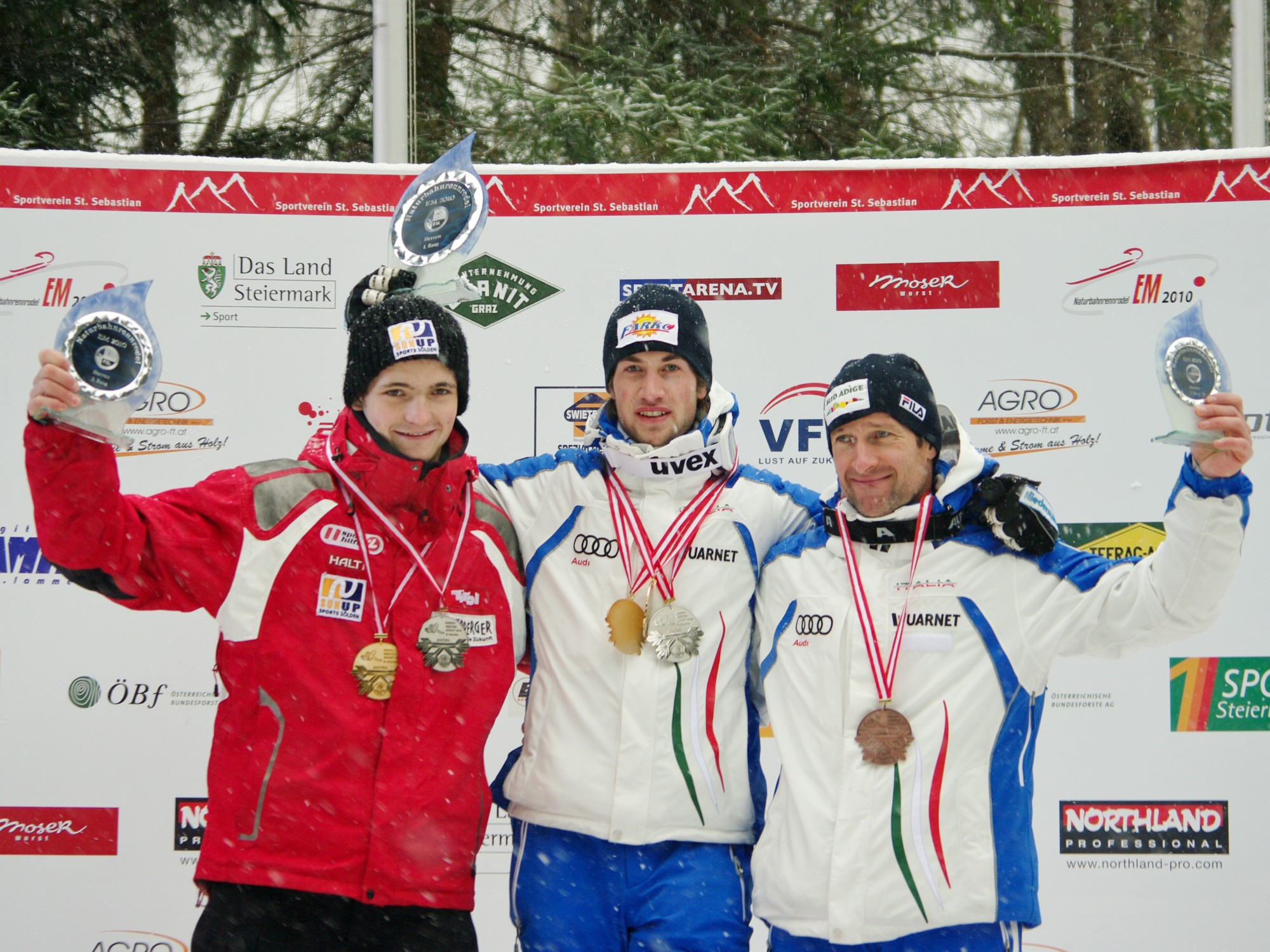 FIL European Luge Natural Track Championships 2010, Prize giving ceremony men's singles: 1st place: Patrick Pigneter (ITA), 2nd place: Thomas Kammerlander (AUT), 3rd place: Anton Blasbichler (ITA).